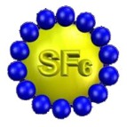 Second generation ultrasound contrast agent microbubble